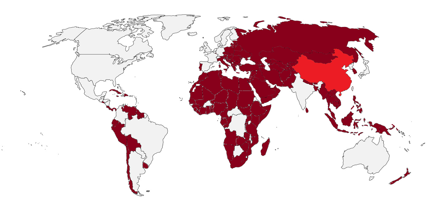 member countries of the new silk route in 2019